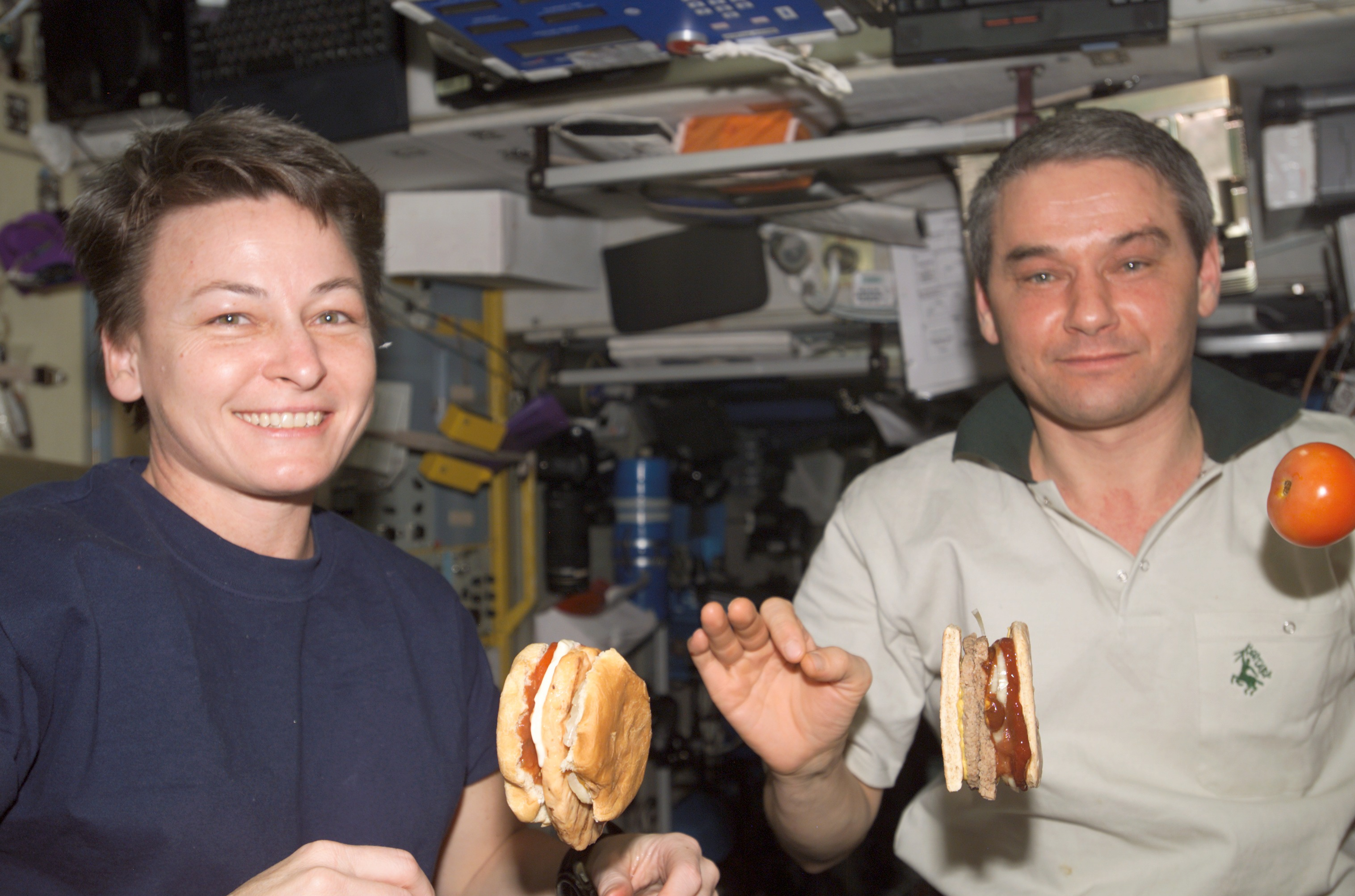 View of Astronaut Peggy Whitson, flight engineer (left) and Cosmonaut Valery Korzun, commander (right), eating a meal in the Service Module (SM)/Zvezda. Tomato and hamburger are floating.